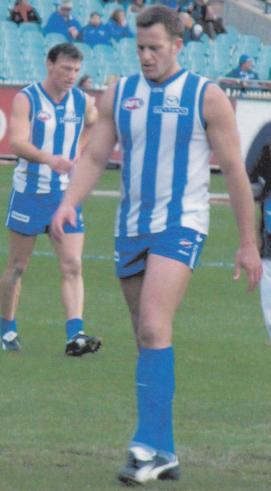 Sav Rocca playing for the North Melbourne Kangaroos against Hawthorn in Round 14 of the 2004 AFL Season.